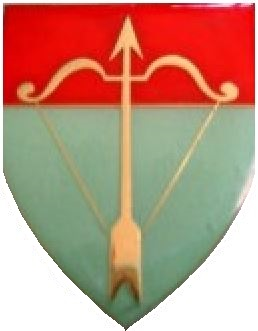 SADF 6 Light Antiaircraft Regiment emblem